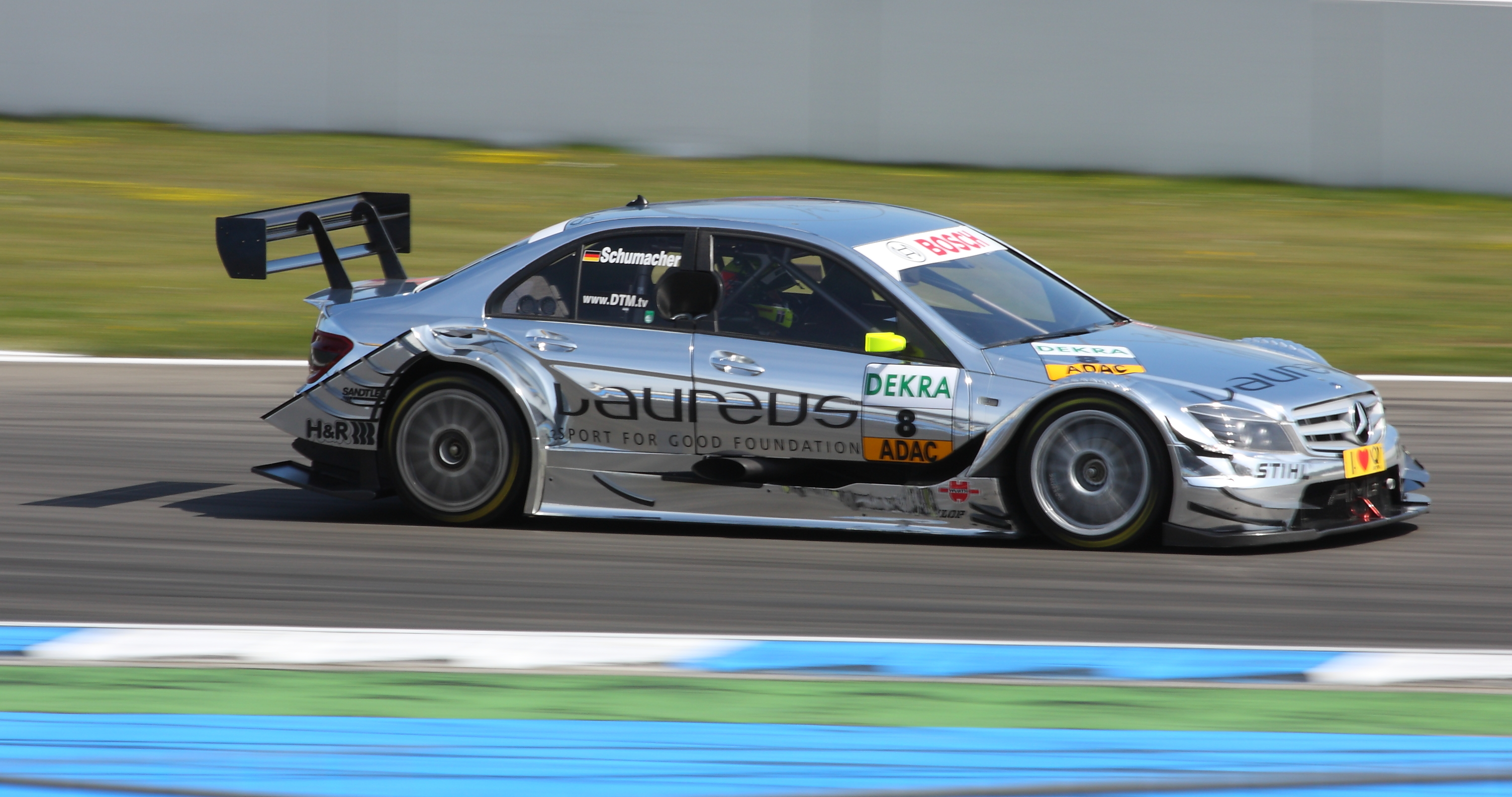 DTM car Mercedes-Benz Season 2010 (C-Class, W204), Ralf Schumacher (driver)